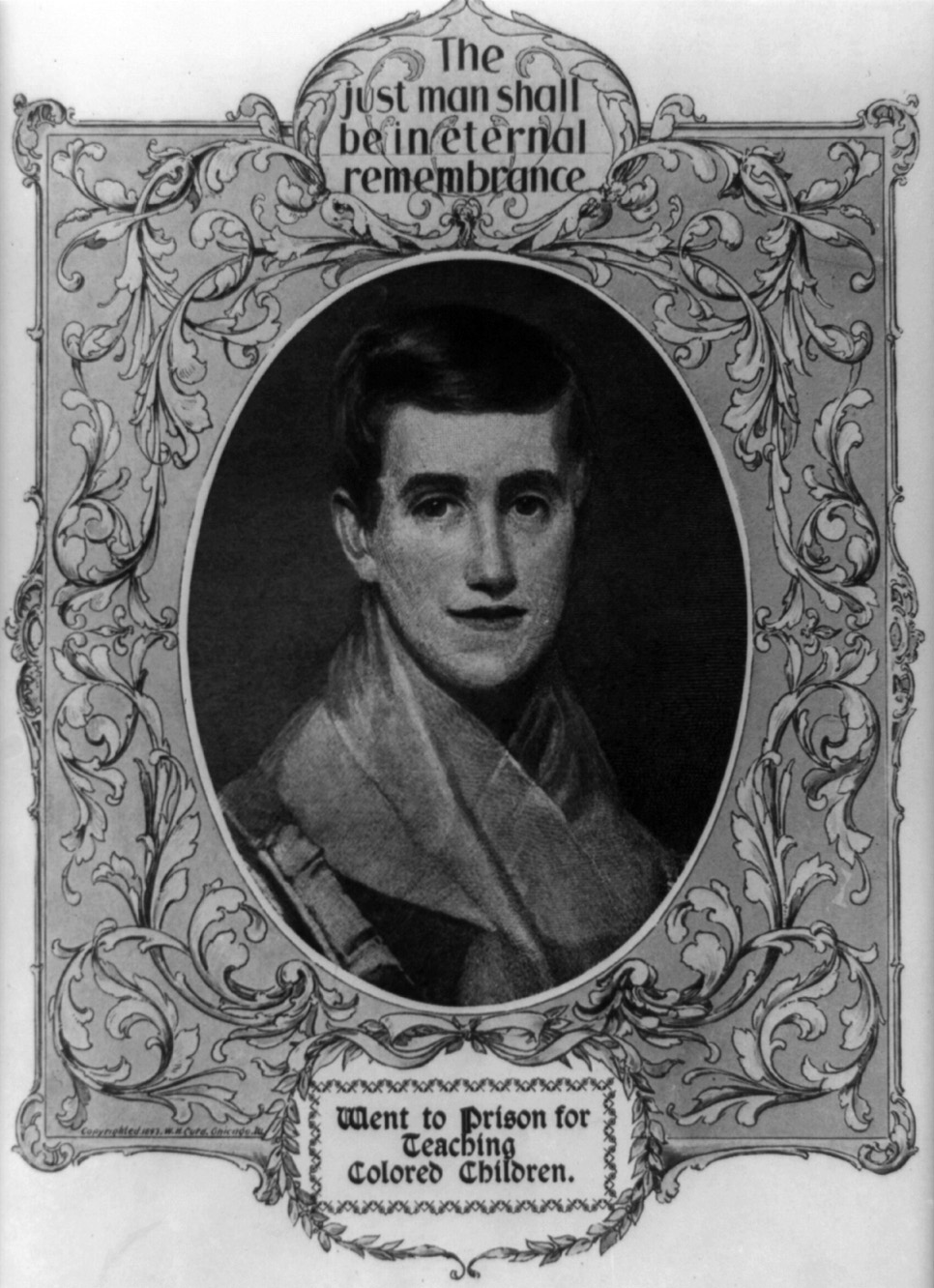 Prudence Crandall, American teacher. Top caption: "The just man shall be in eternal remembrance." Bottom caption: "Went to prison for teaching colored children."